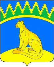 Coat of arms of IMeni M. GOrkogo munipality, Kavkazskaya raion, krasnodar krai, Russia.